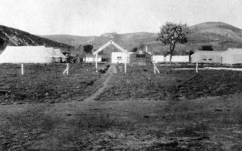 The First World War, Dragomanci, First Surgical Hospital II Army. Српски (ћирилица): Први светски рат, Драгоманци, Прва хируршка пољска болница II армије. Фотографија је из ратног албума 1914-1918 др Ђорђа Жујовића (1896-1984).професора Радиологије на Медицинском факултету Универзитета у Београду, који је септембра 1915, ступио у одред ратних добровољаца.